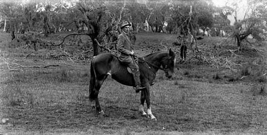 The image is from the National Library of Australia collection, catalogue number nla.pic-vn4390289. Caption: Thomas Griffith Taylor mounted on a horse, Australian Capital Territory, Canberra, 1913. URL =